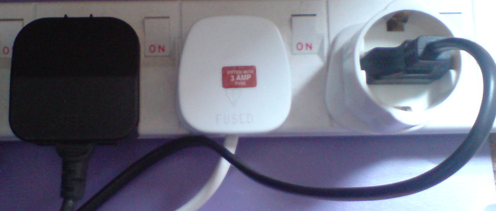 Comparison of (left to right) 1. A BS 1363 converter containing a Europlug 2. A typical BS 1363 plug 3. A BS 1363 Schuko adaptor, containing a Europlug I am the author of this image